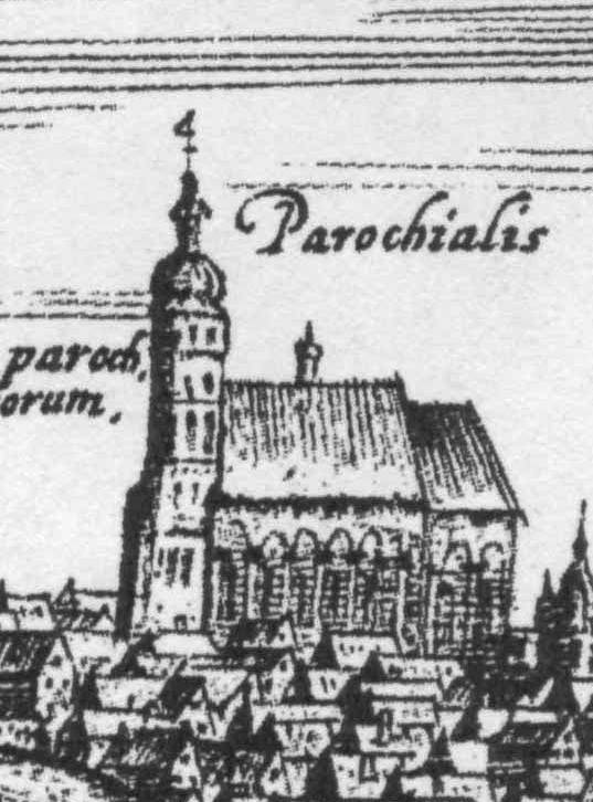 Church of Vitaut the Great, Hrodna; Фара Вітаўта ў Горадні